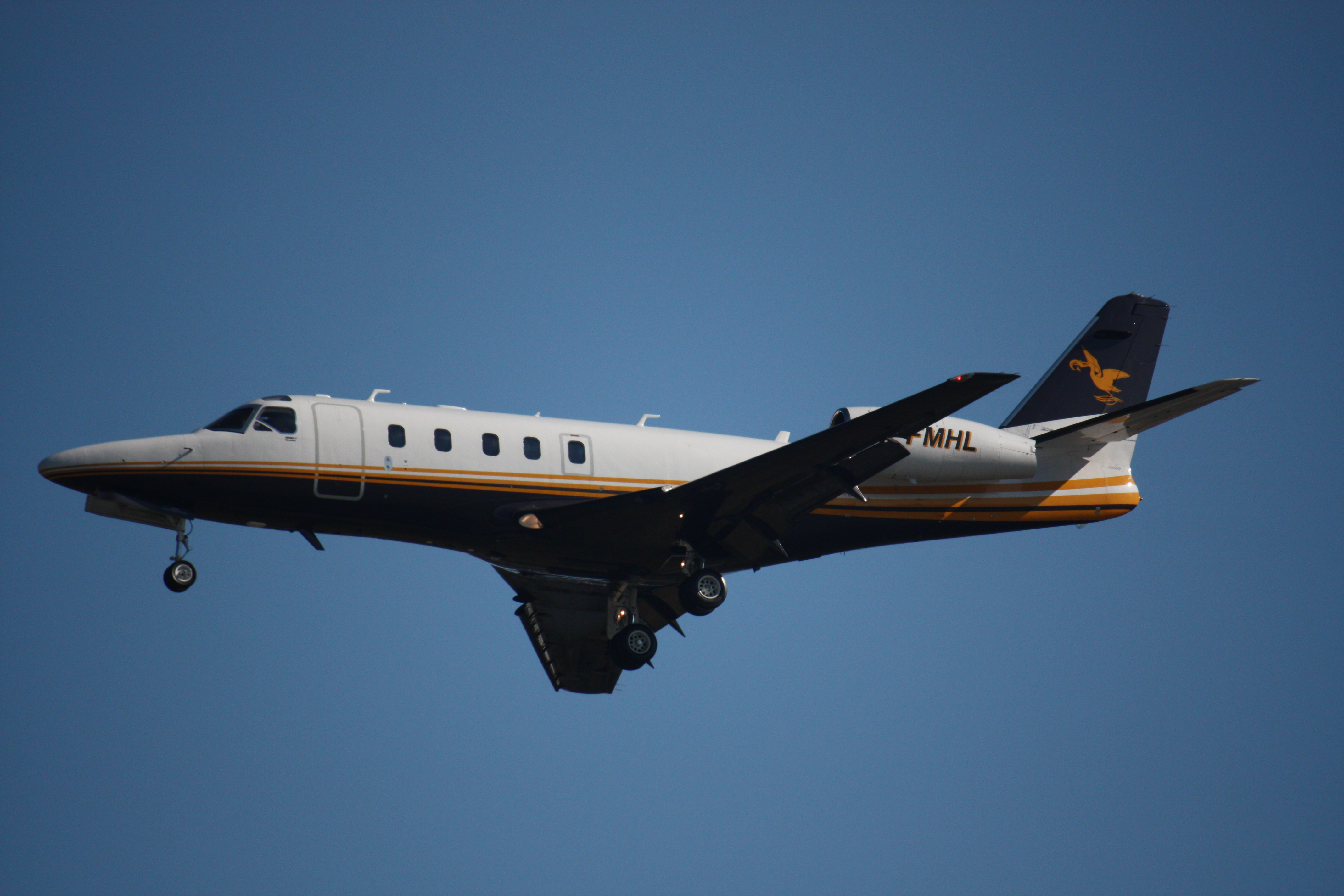 A Kelowna Flightcraft Air Charter Ltd. Israel 1125 Westwind Astra, tail number C-FMHL, landing at Vancouver International Airport